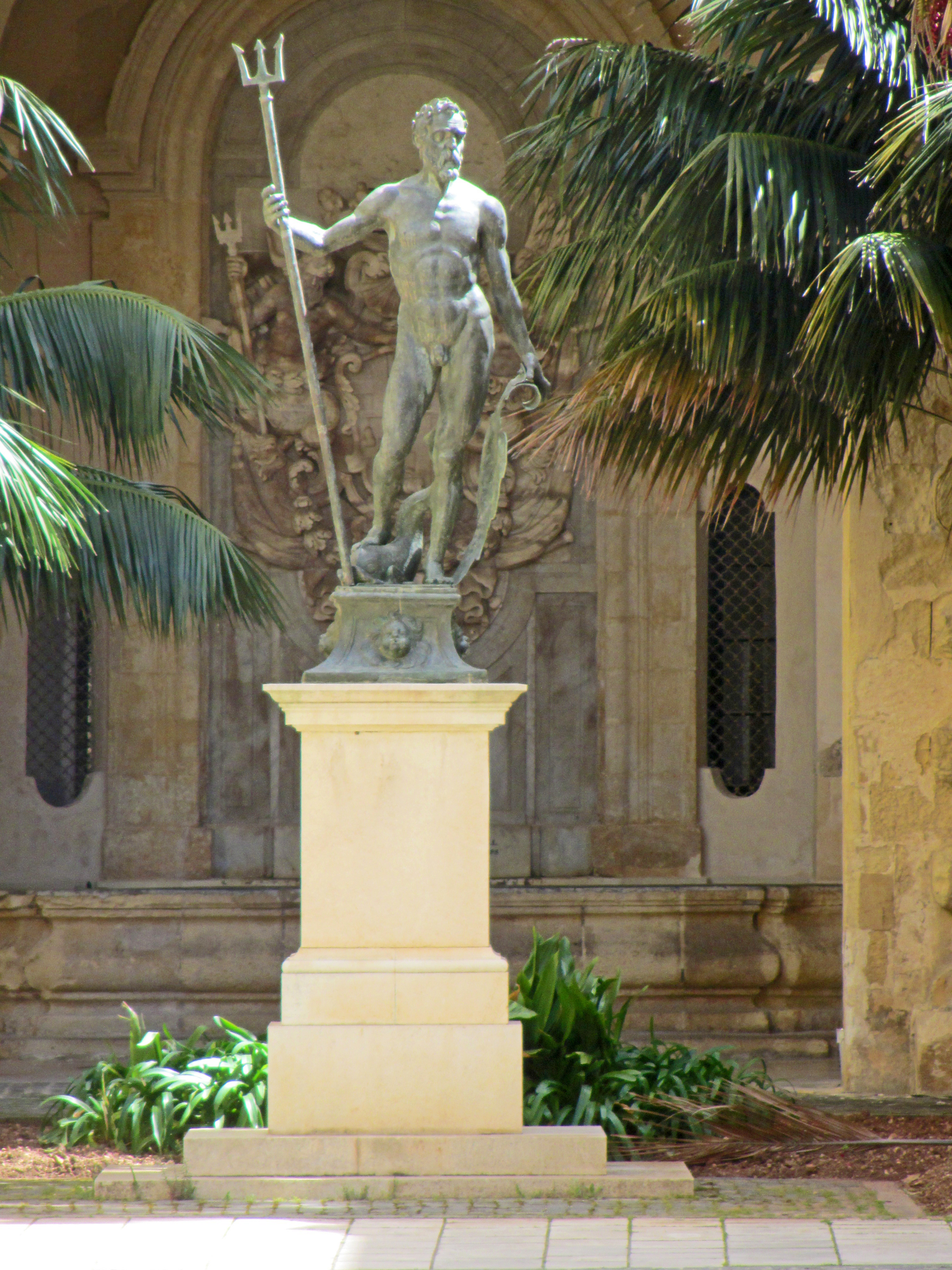 Statue of Neptun in Courtyard of Grandmaster's Palace, Valletta, Malta